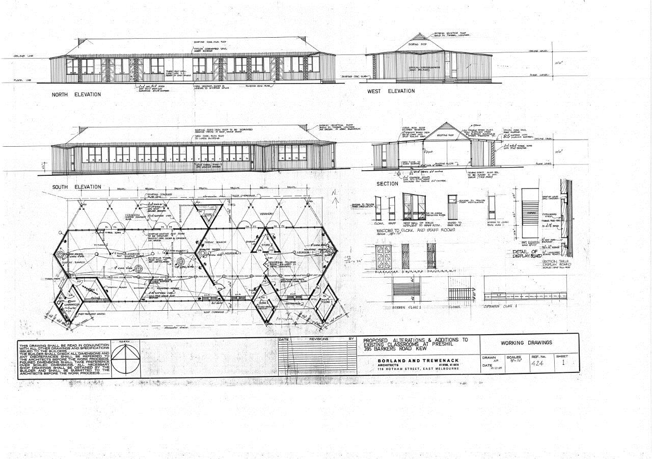 Preshil Classrooms